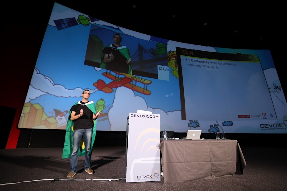 Devoxx 2011 keynote by Stephan Janssen with Brazilian flag